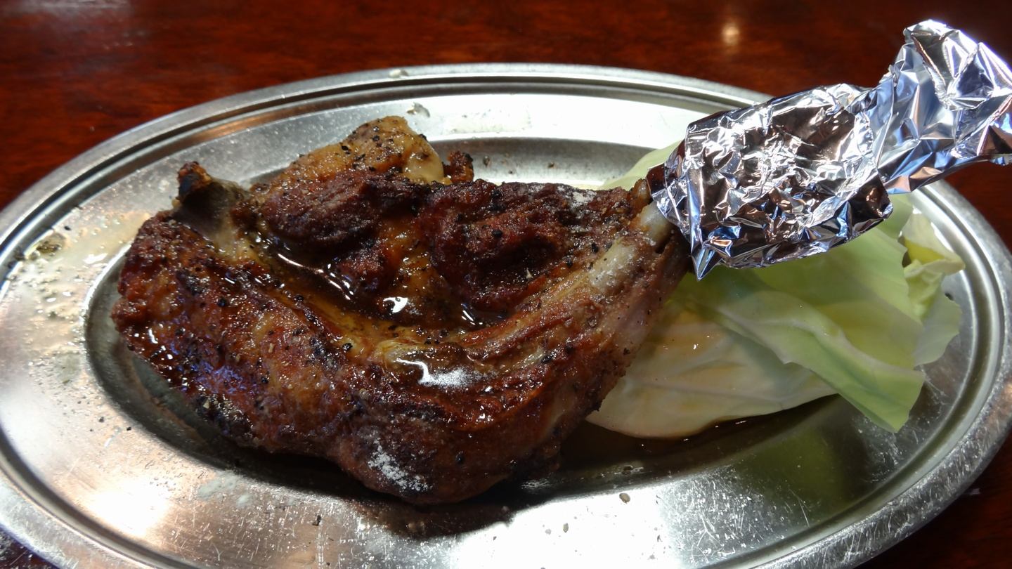 "Honetsuki-dori" (Marugame City, Kagawa Prefecture, Japan)